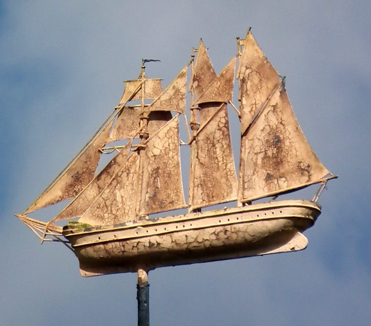 Wind vane on top of Frank James Hospital IoW UK. Model of yacht owned by the Victorian explorer that brought his body home after he was killed in Africa by a wounded elephant.